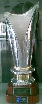 Photo of the Richard Pratt Cup. Taken April 2010 at Westpac Centre.